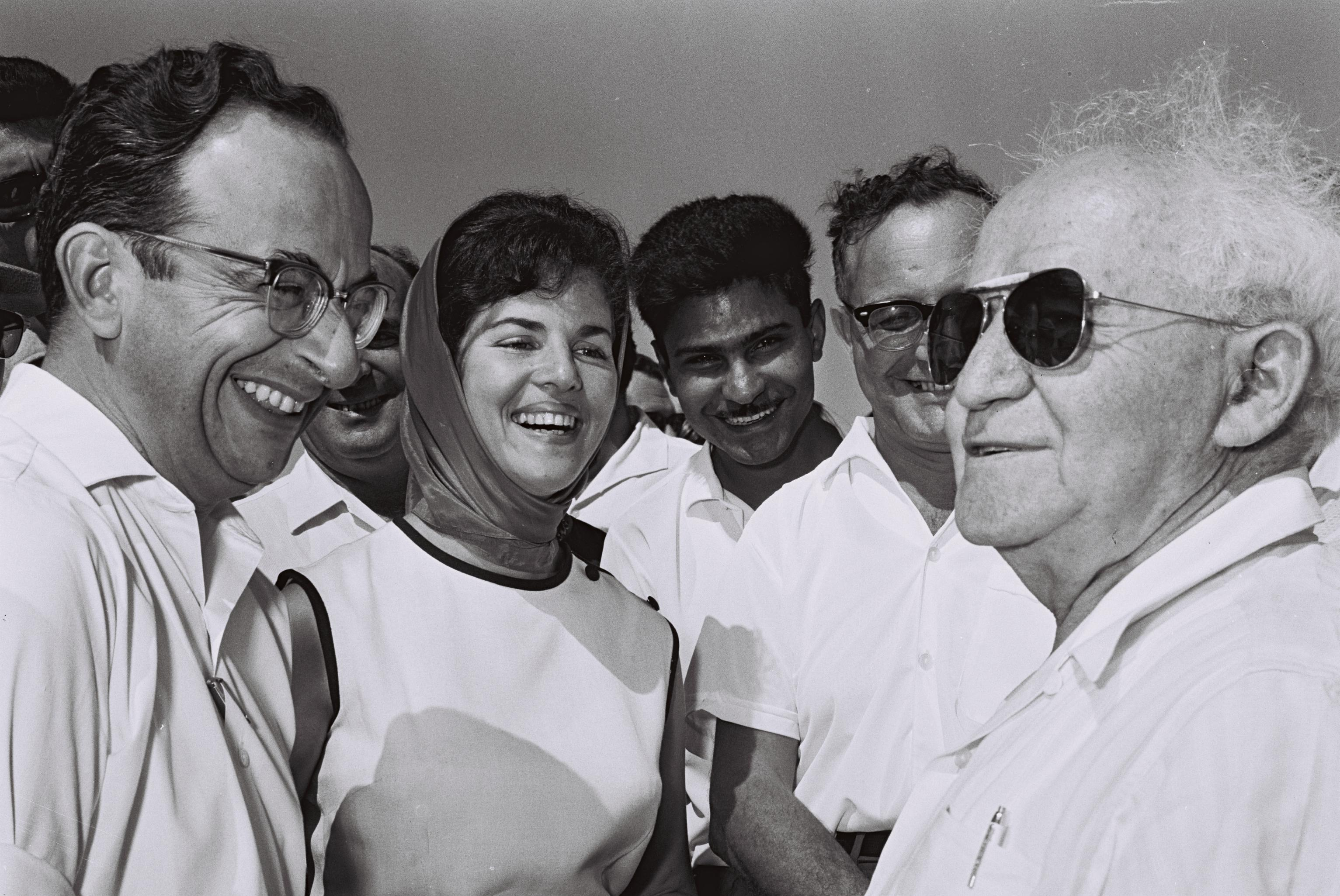 MR. DAVID BEN GURION RECEIVING BIRTHDAY CONGRATULATIONS FROM HIS FORMER POLITICAL SECRETARY YITZHAK NAVON AND HIS WIFE OPHIRA NAVON AT SDEH BOKER